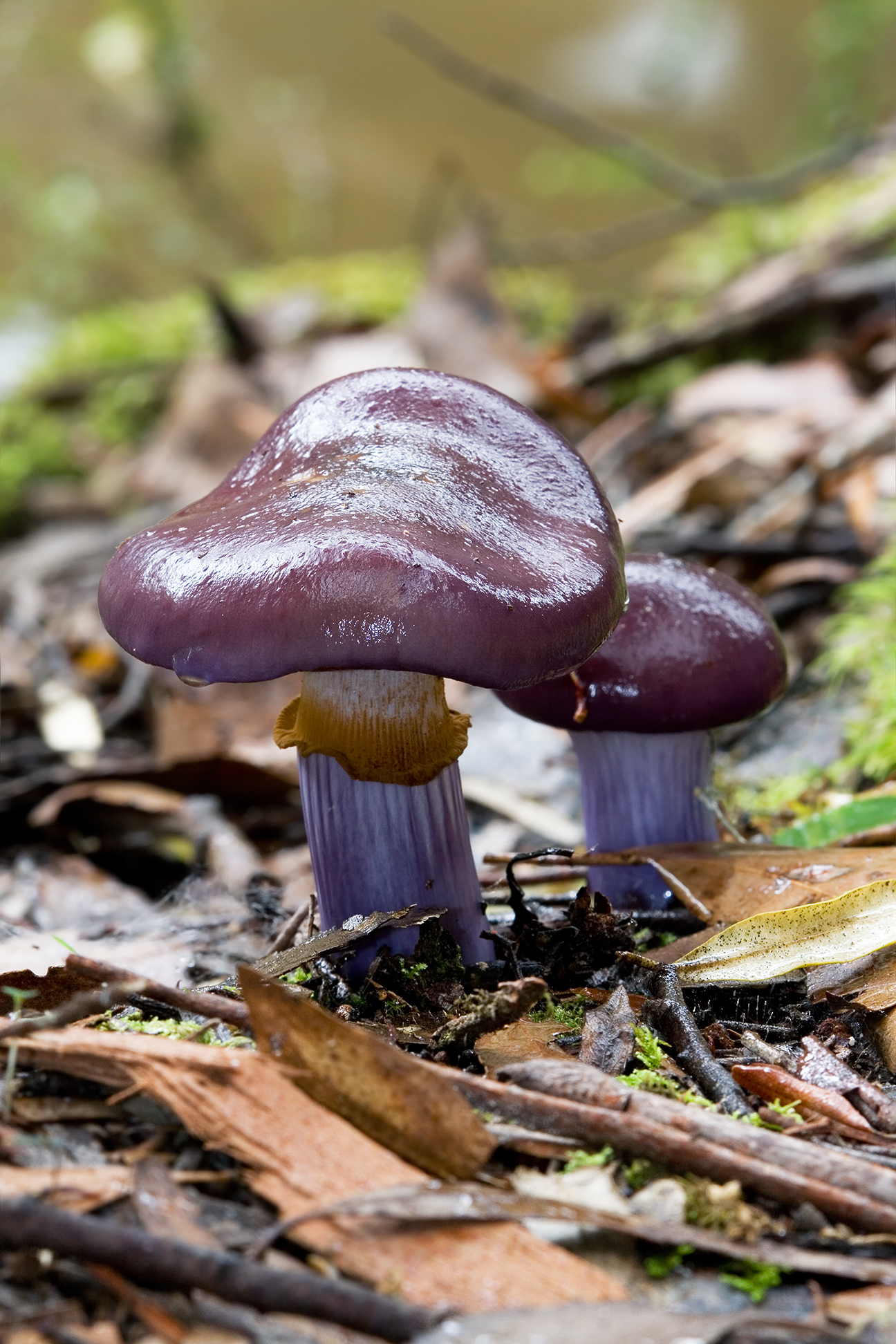 Cortinarius archeri, Marriott Falls Track, Mt Field National Park, Tasmania, Australia Camera data Camera Canon EOS 400D Lens Tamron EF 180mm f3.5 1:1 Macro Flash Fill Focal length 180 mm Aperture f/11 Exposure time 1 s Sensivity ISO 100